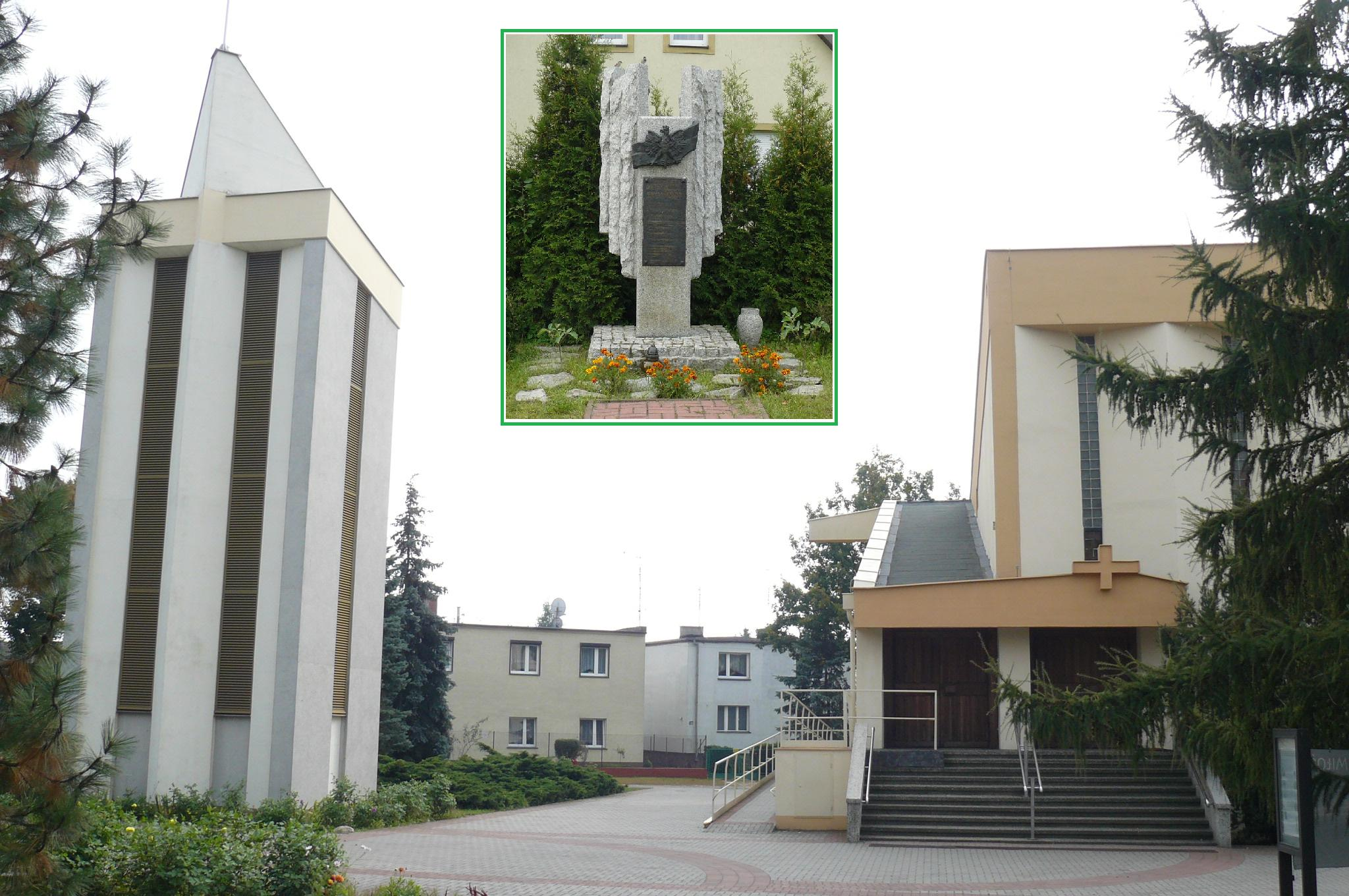 Poznan - Junikowo, Church.